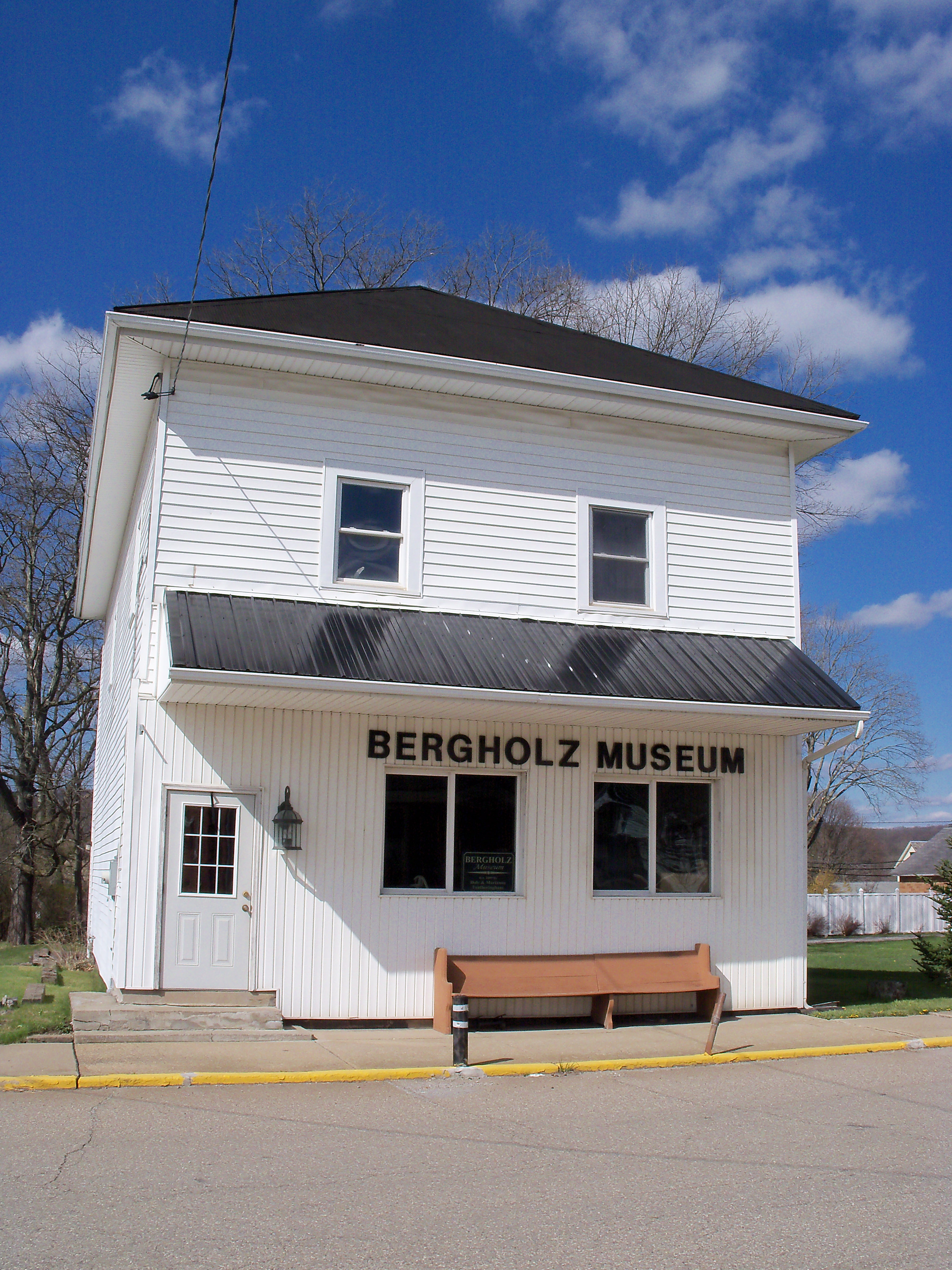 The town museum in Bergholz, Ohio